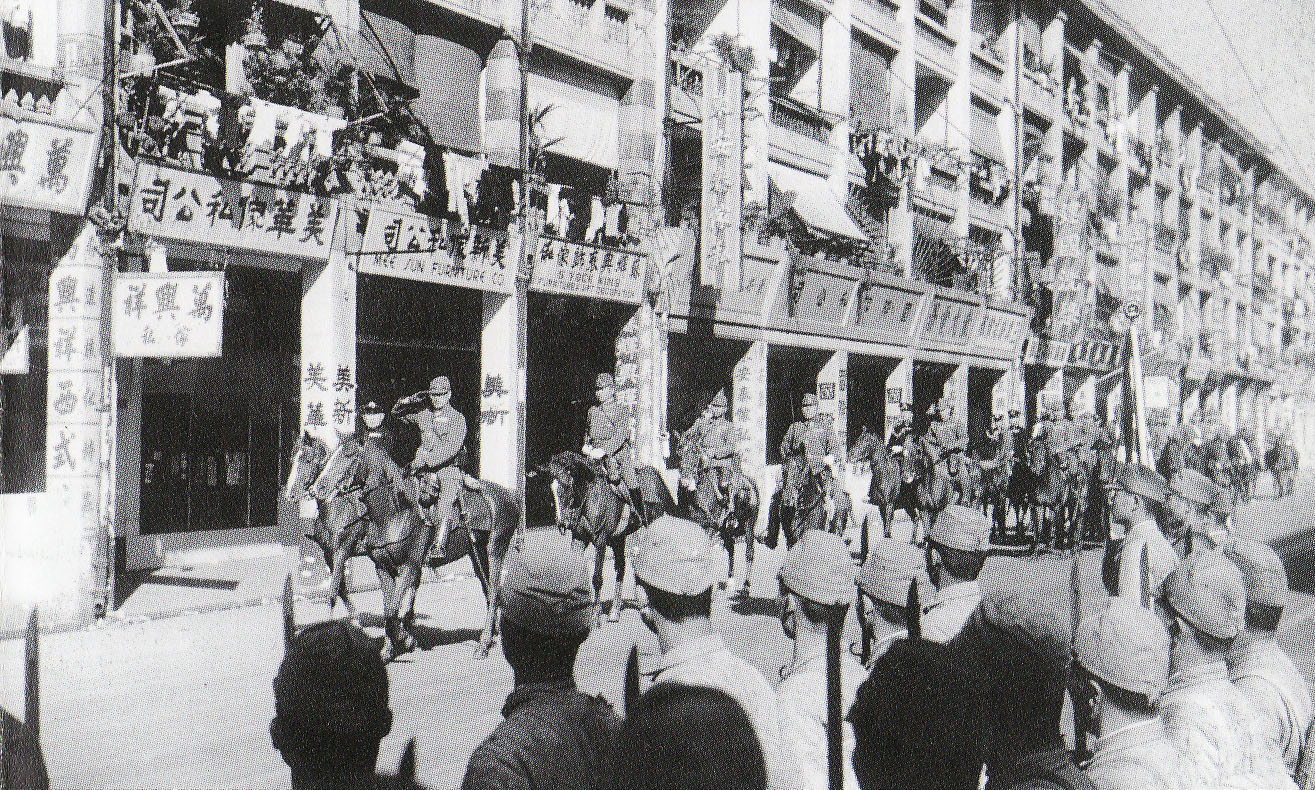 Japanese victory parade in Hong Kong, 1941